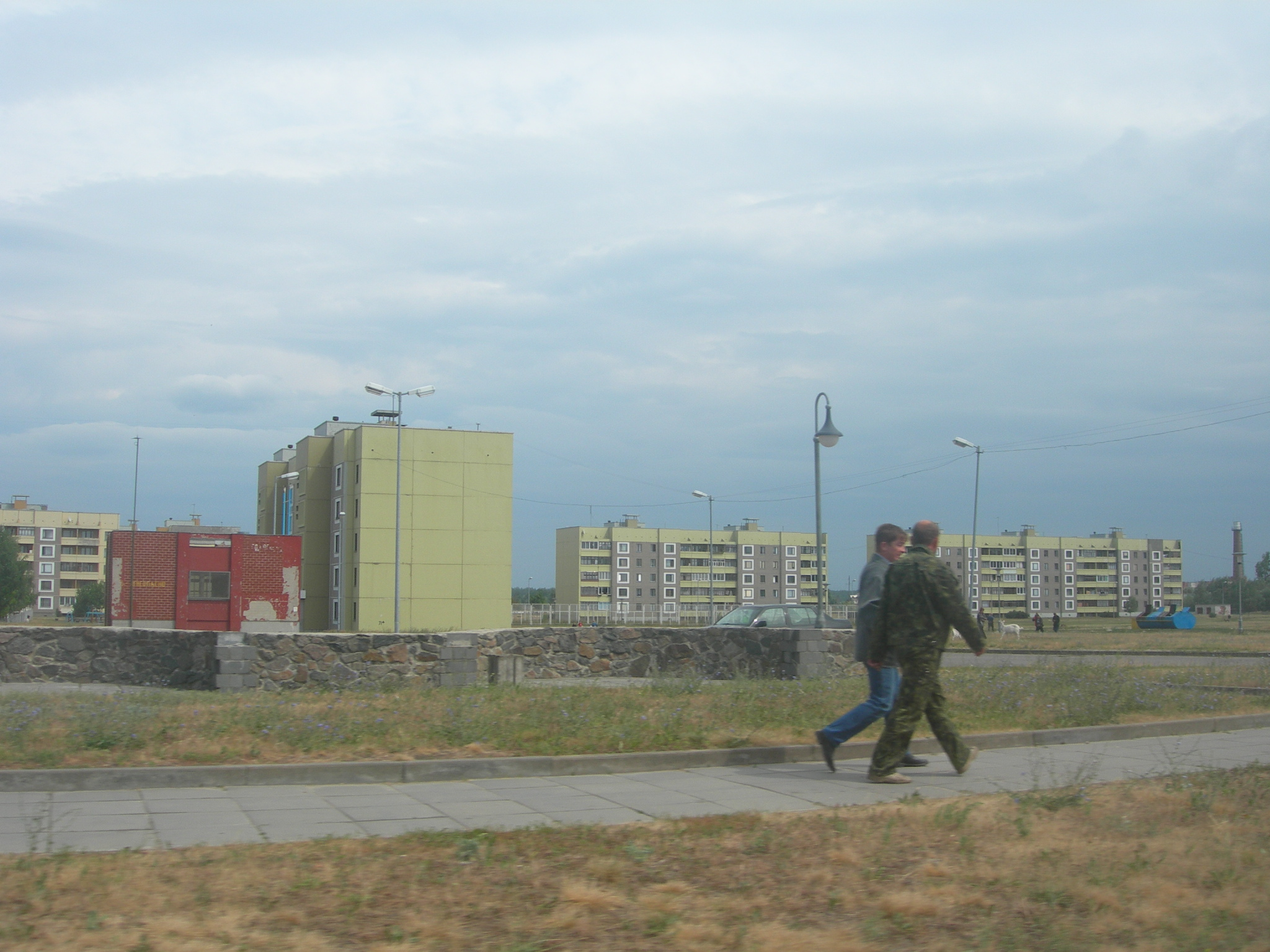 Biaroza: a newer part of town